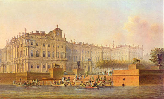 Vasily Sadovnikov (1800-79). View of the Dvortsovaya pier in 1840.